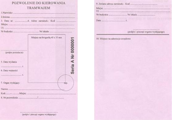 A specimen of a license to drive a tram